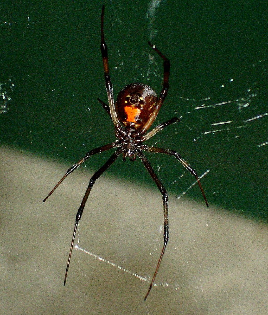 Black widow (Latrodectus mactans) Orange County has a lot of spiders, most of which seem to live in and around our house. We have more than our share of Black Widows, mostly in the garden and in our garage. They frighten me on a very basic level, so getting close enough to take a picture was a minor act of bravery. Sadly, I couldn't get a great picture of this one in our garage. I had to turn the ISO way up and the flash down to get anything approaching the correct color and focus. The result is grainy, but it was the best I could do in low light conditions.